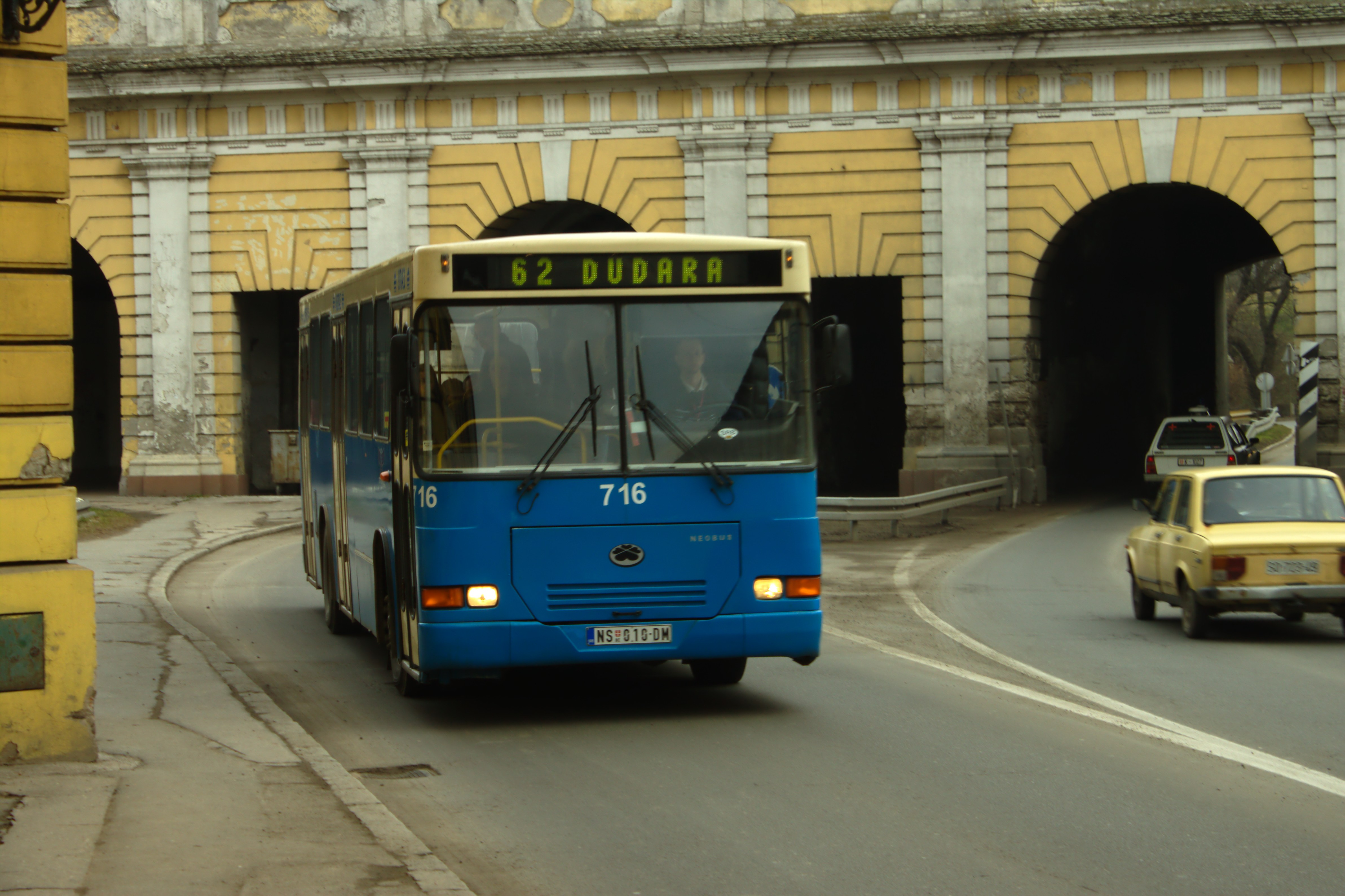 A city bus on Beogradska street in Petrovaradin, Novi Sad, Serbia